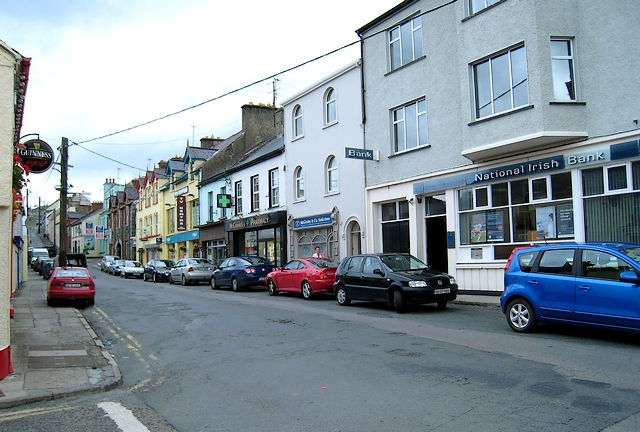 Main Street, Milford Main Street in the Donegal town.